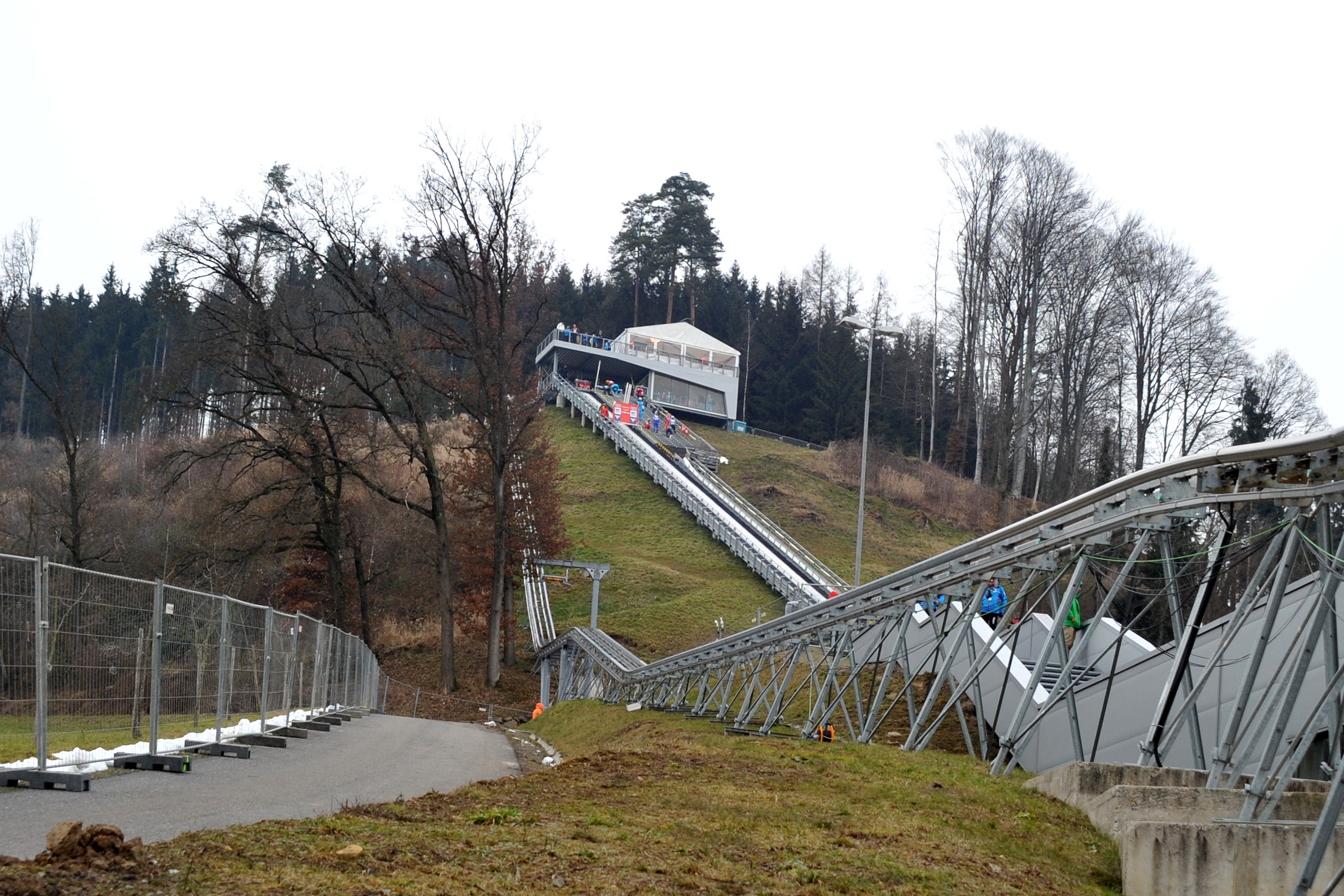 FIS Ski Jumping World Cup Ladies 14th World Cup Competition Normal Hill Individual Hinzenbach (AUT) Sun 2 Feb 2014: Schanzenanlage in Hinzenbach